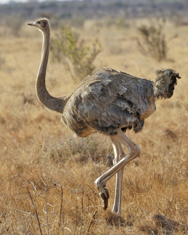 North African Ostrich / Masai Ostrich, - female non-breeding Struthio camelus ssp Struthio camelus massaicus Swahili: Mbuni Masai Tsavo East, Kenya August 26, 2008 690V0220